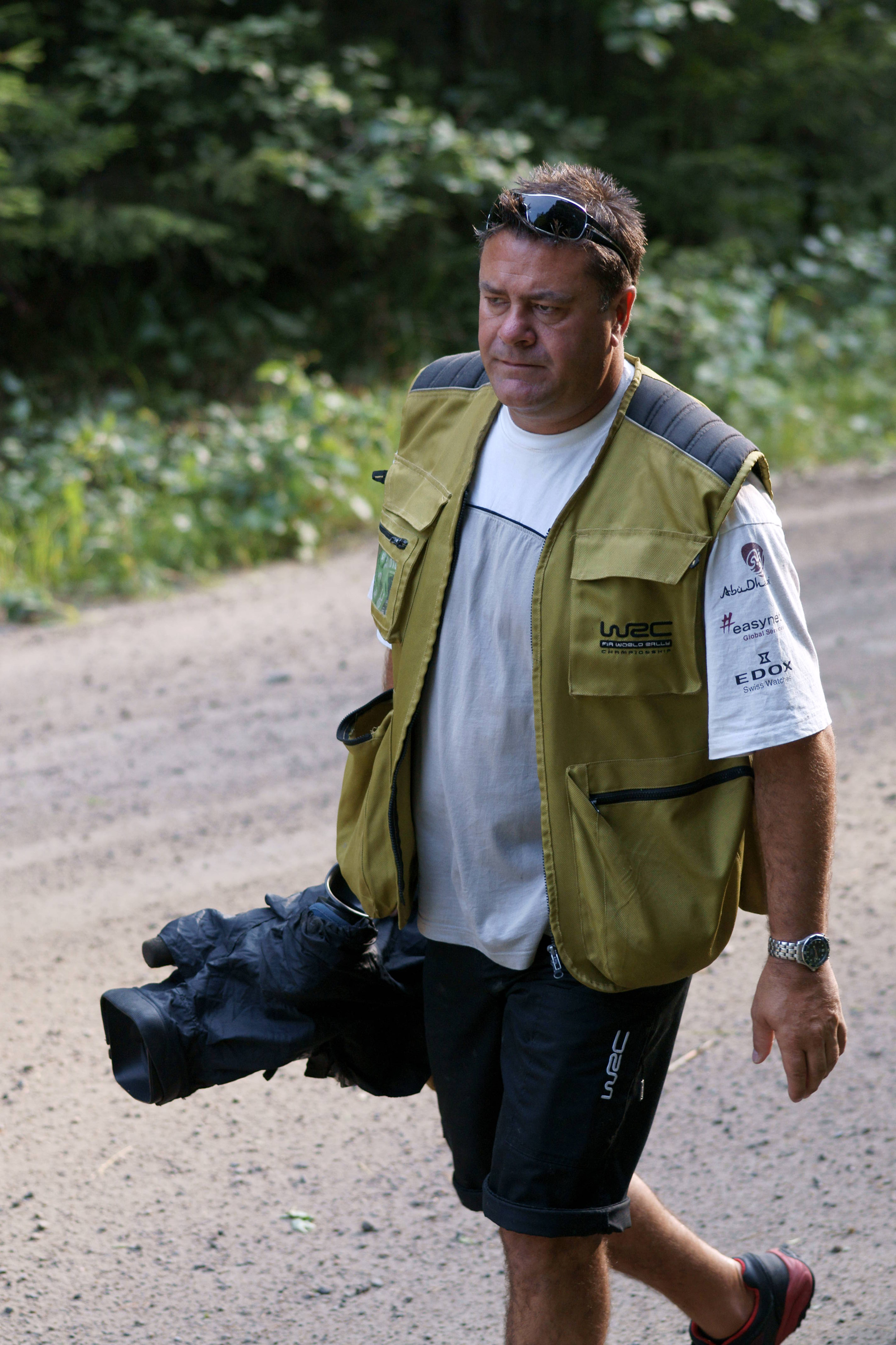 WRC-photographer in Rally Finland 2010.